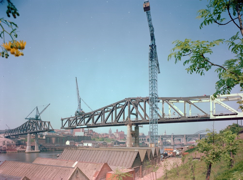 View of the Metro Bridge across the River Tyne nearing completion, June 1978 (TWAM ref. DT.TUR/4/CN11163A). Tyne & Wear Archives presents a series of images taken by the Newcastle-based photographers Turners Ltd. The firm had an excellent reputation and was regularly commissioned by local businesses to take photographs of their products and their premises. Turners also sometimes took aerial and street views on their own account and many of those images have survived, giving us a fascinating glimpse of life in the North East of England in the second half of the Twentieth Century. (Copyright) We're happy for you to share these digital images within the spirit of The Commons. Please cite 'Tyne & Wear Archives & Museums' when reusing. Certain restrictions on high quality reproductions and commercial use of the original physical version apply though; if you're unsure please